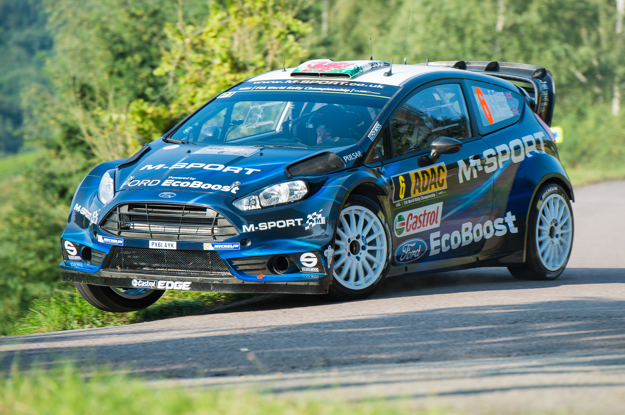 ADAC Rallye Deutschland 2014,Daniel Barritt,Elfyn Evans,FIA,FIA World Rally Championship,Ford Fiesta RS WRC,M-Sport WRT,M-Sport World Rally Team,Motorsport,Rally,Rallye,Shakedown,WRC